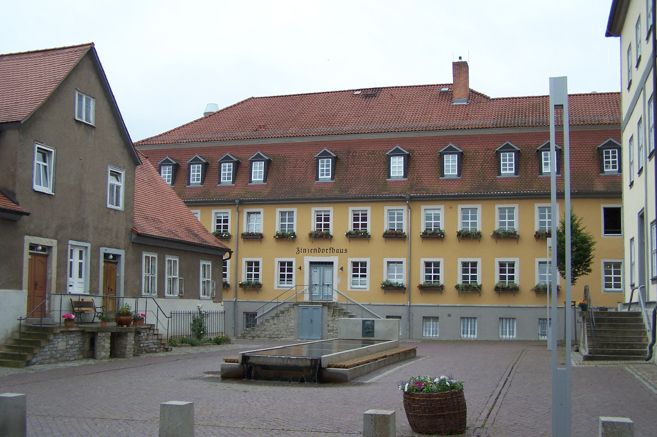 The Zinzendorf-Haus in Neudietendorf village.